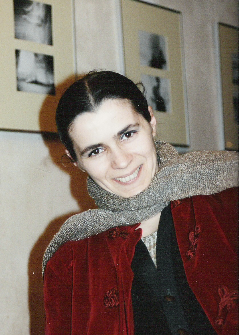 Toula Limnaios, Greek choreographer, photographed in front of pictures of she taken by photographers of the Agency Cyan (Berlin), in the exhibition "Entrez dans la danse" at the Ferme castrale of Hermalle-sous-Huy, Belgium, May 1997.